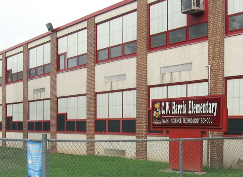 Image of the front entrance to the C.W. Harris Elementary School in the Marshall Heights neighborhood of Washington, D.C., in 2012.